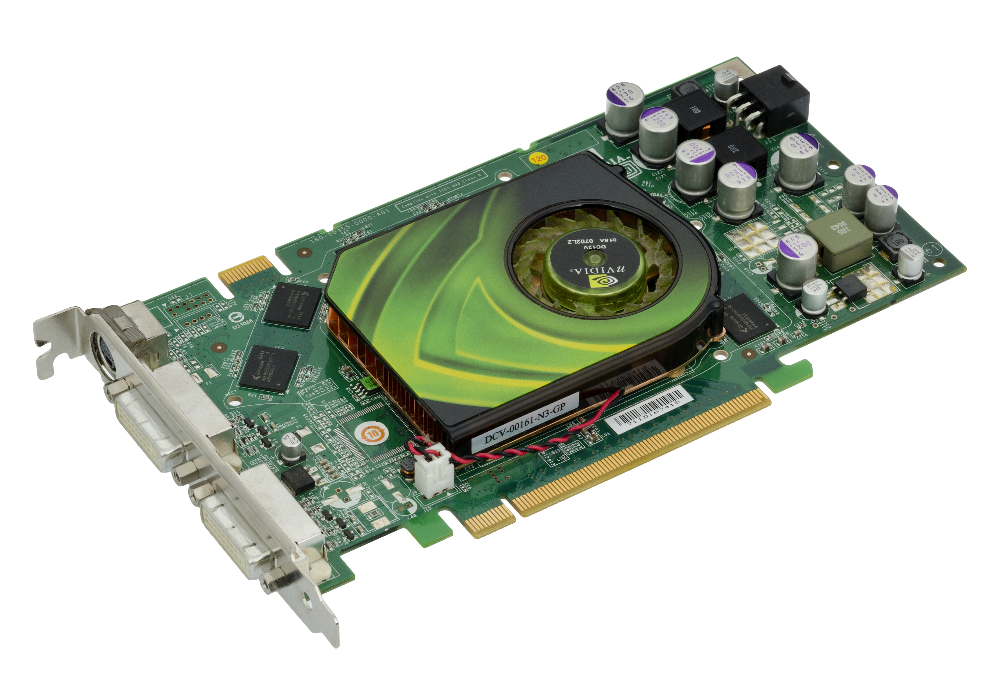 An Nvidia 7900GS video card for computer graphics. This particular card is the DCV-00161-N3-GP model and was an OEM card for Dell computer builds. The stats are likely: PCI-Express x16 Core clock - 500MHz Memory - 256MB of GDDR3 Capable of DirectX 9 & OpenGL 2.0